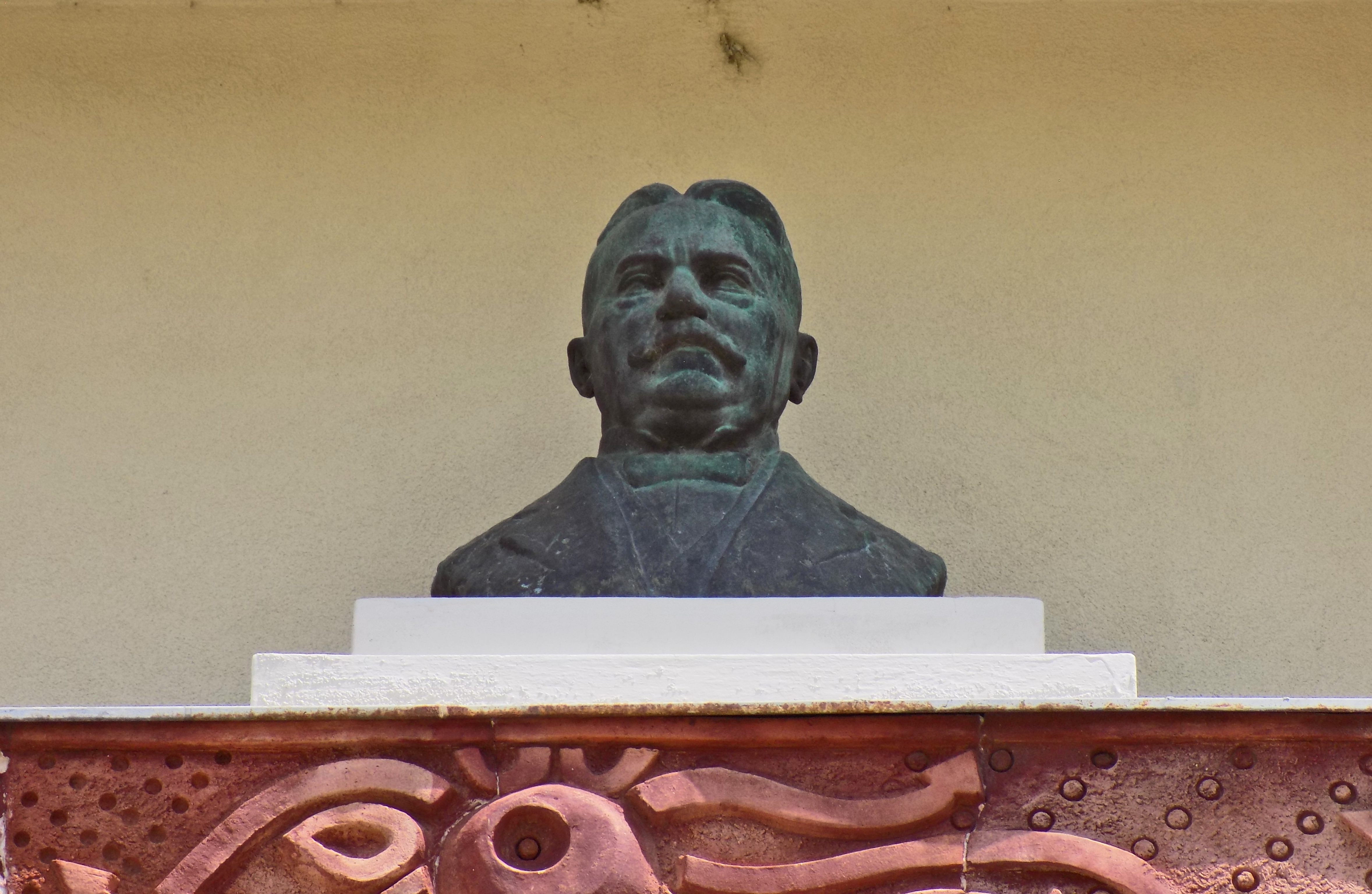 People's House of Mihajlo I. Pupin, Pupin's endowment in his native village of Idvor - Pupin's bust above the entrance, the work of sculptor Ivan Meštrović